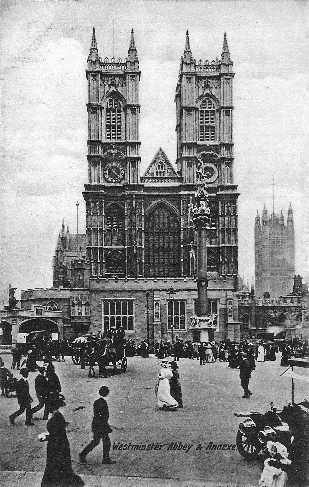 This is a view of the west front of Westminster Abbey showing the Coronation annexe. The annexe was built in the Gothic style in order to blend in with the Abbey for the coronation of King George V on 22nd June 1911.